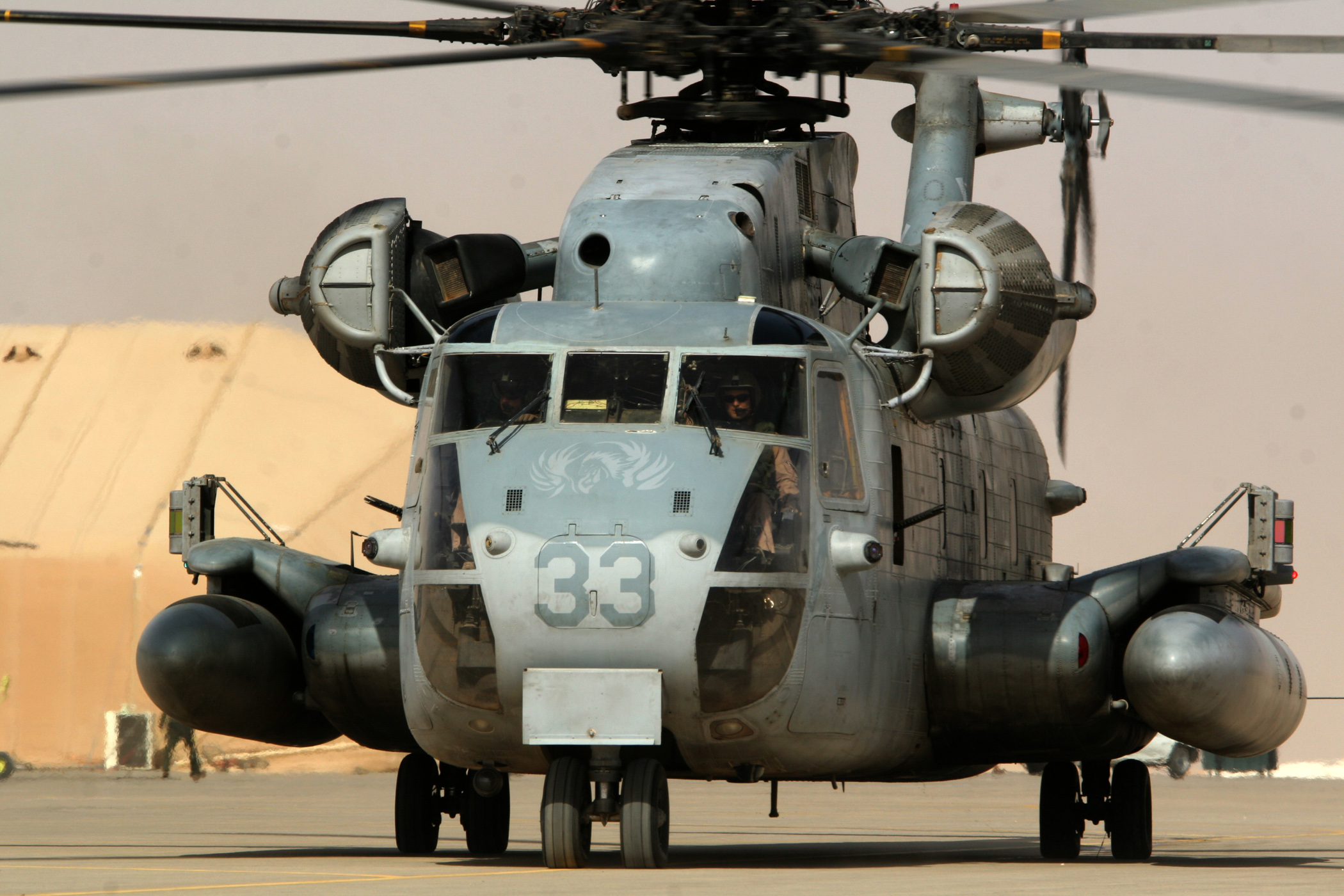 Maj. Edward Rodgers (seated right side of aircraft) and Capt. Eric D. Gregory taxi aircraft number 33, a CH-53D Sea Stallion, onto the flight line for a flight at Al Asad, Iraq, June 14. Rodgers is the maintenance officer with Marine Heavy Helicopter Squadron 463, Marine Aircraft Group 16 (Reinforced), 3rd Marine Aircraft Wing, and Gregory is the ground safety officer with HMH-463. Photo by: Lance Cpl. James B. Hoke Photo ID: 200662274821 Submitting Unit: 3rd Marine Aircraft Wing Photo Date:06/14/2006